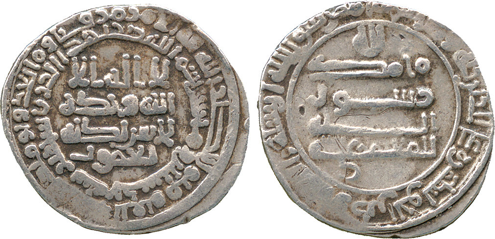 ISLAMIC COINS, SAFFARID (FIRST DYNASTY), Ya'qub al-Layth, Silver Dirham, Banjhir 261h, 3.07g (A 1401.1)